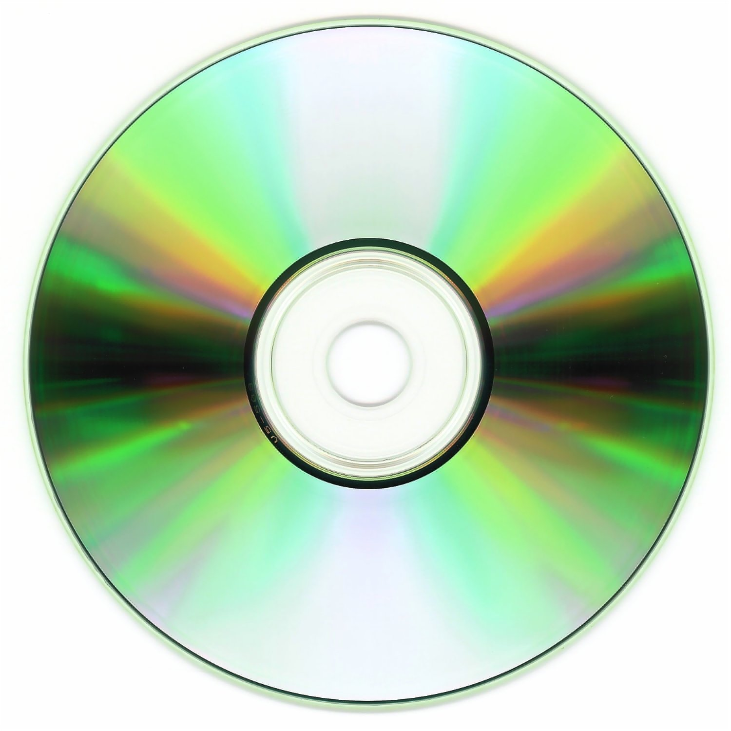 A Sony Compact Disc. Scanned by Arun Kulshreshtha in an HP OfficeJet 7110 All-In-One.